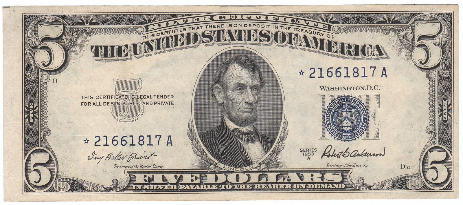 Series of 1953 $5 Silver Certificate